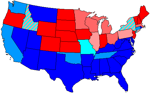 Summary of party control of U.S. house seats in the 79th United States Congress following election. Stripes indicate a tie between two or more parties. Legend: 80.1-100% Democratic seat majority 60.1-80% Democratic seat majority 60% or less Democratic seat plurality 60% or less Republican seat plurality 60.1-80% Republican seat majority 80.1-100% Republican seat majority